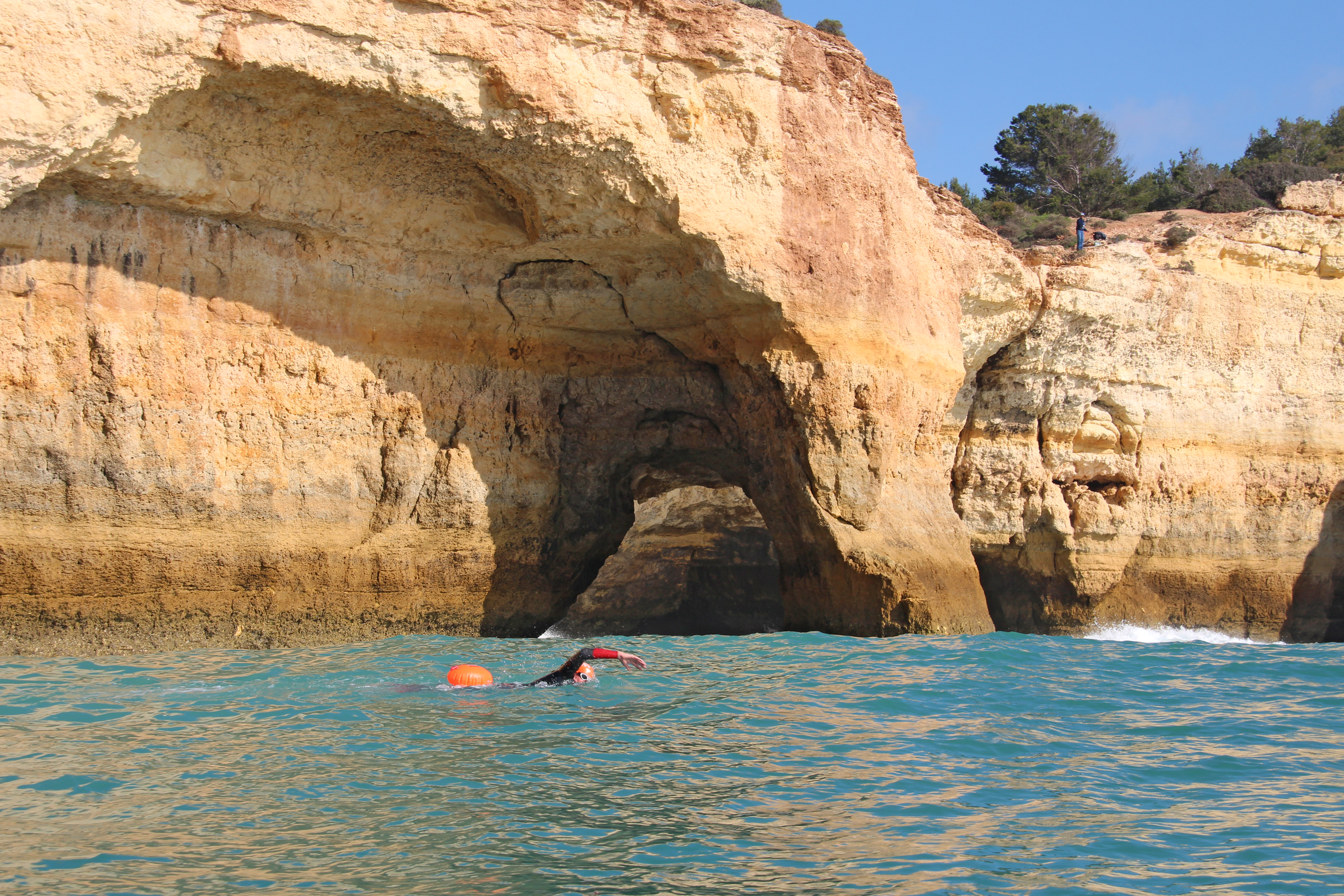 Swimming around the most famous sea cave on the Algarve coast